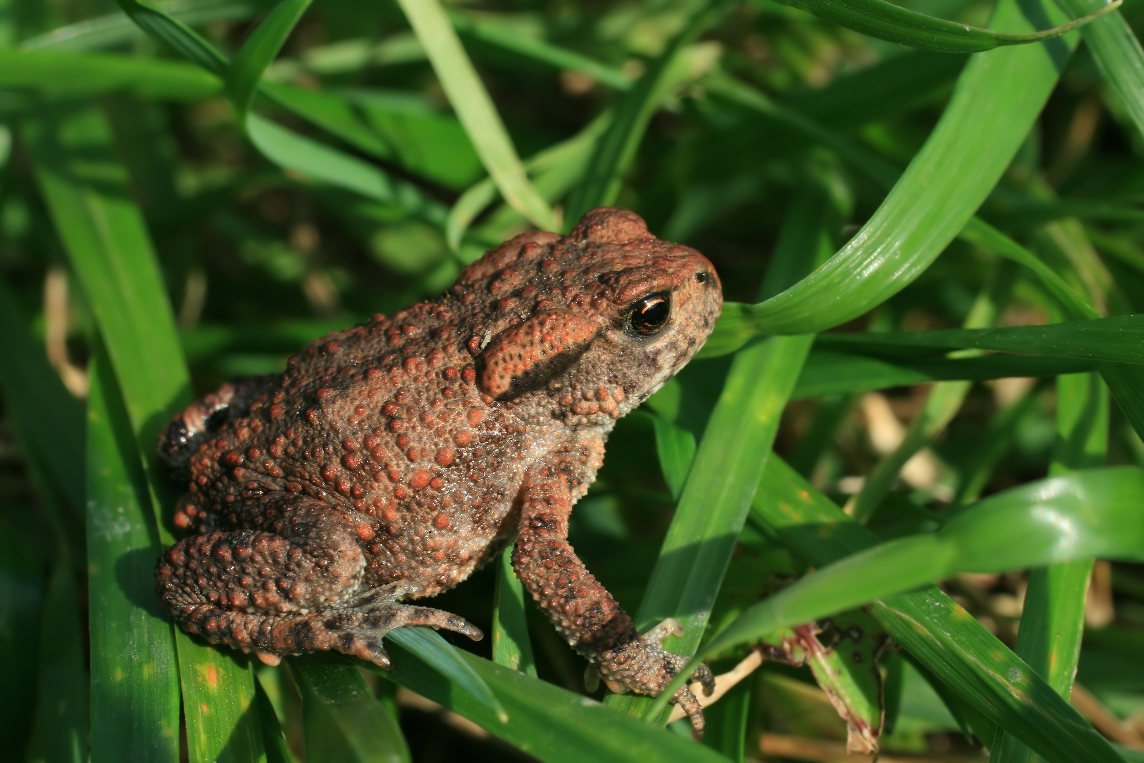 Common toad (Bufo bufo) in grass. Lill-Jansskogen, Stockholm, Sweden.